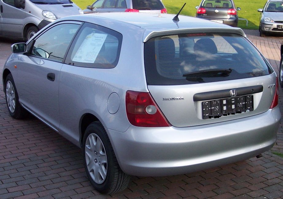 Honda Civic